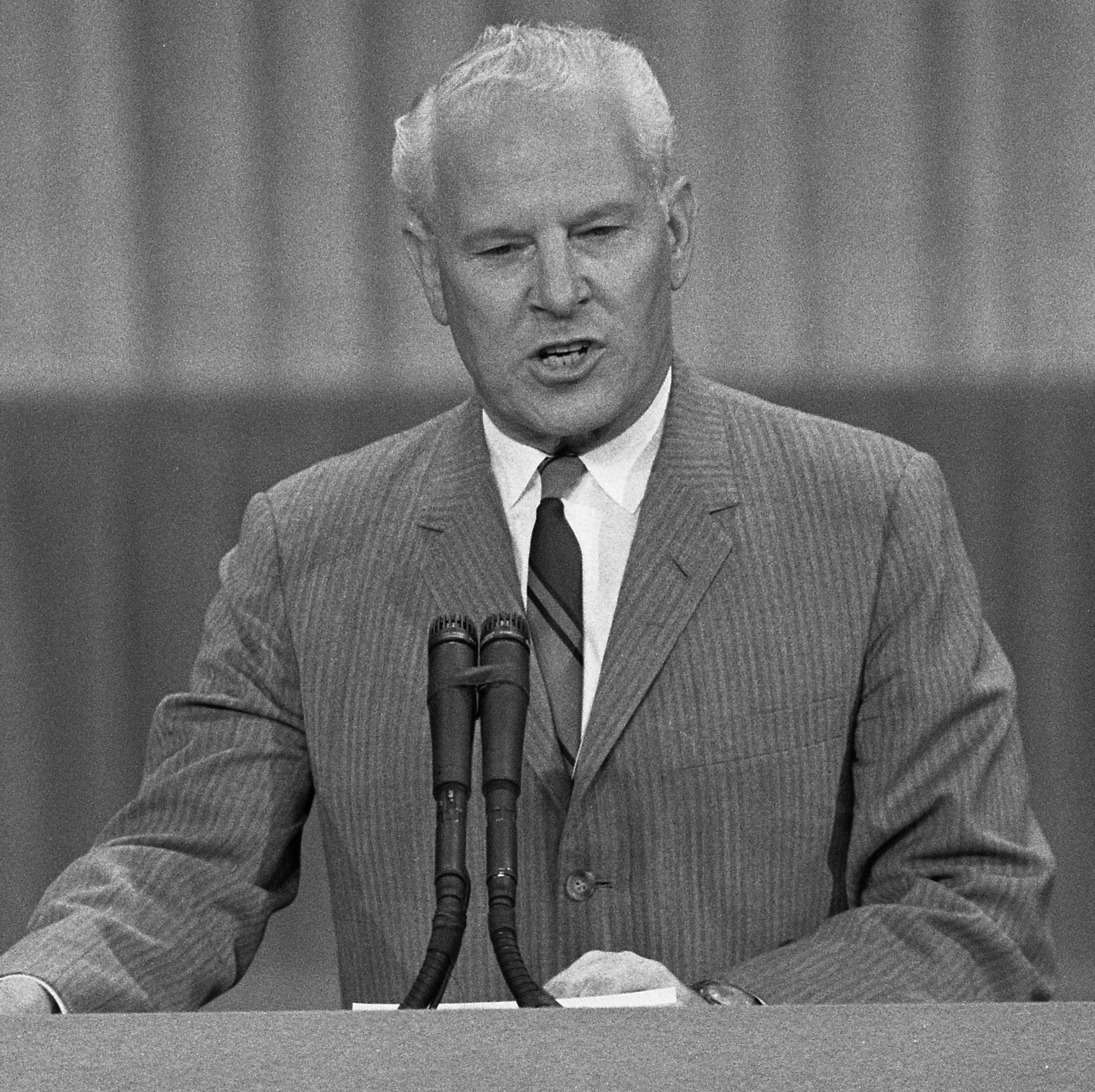 Albert Gore Sr. speaking during the third session of the 1968 DNC